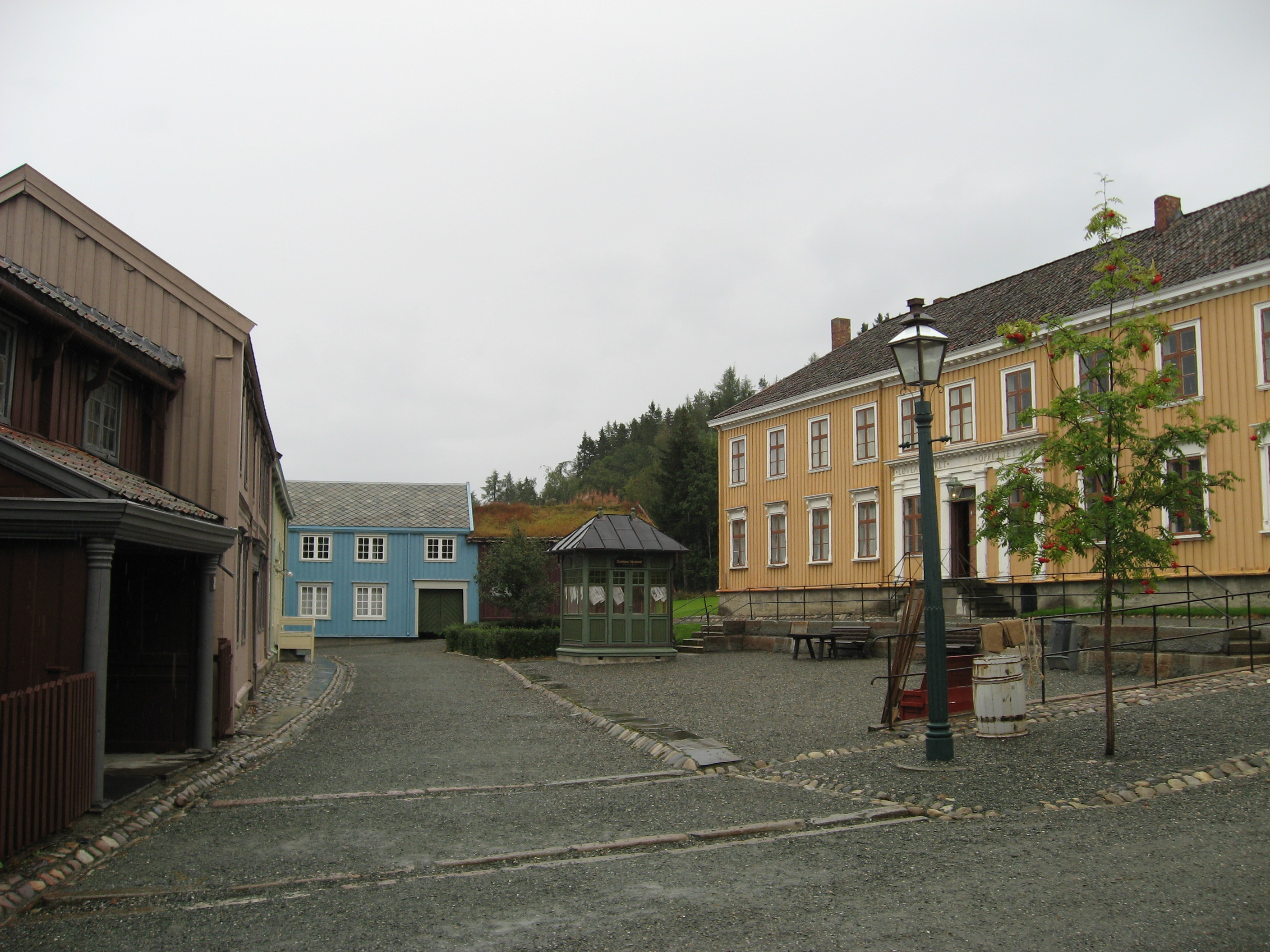 The 'town square' in Sverresborg open air folk museum, Trondheim, Norway. Photo taken by Alan Ford 2006-09-03.